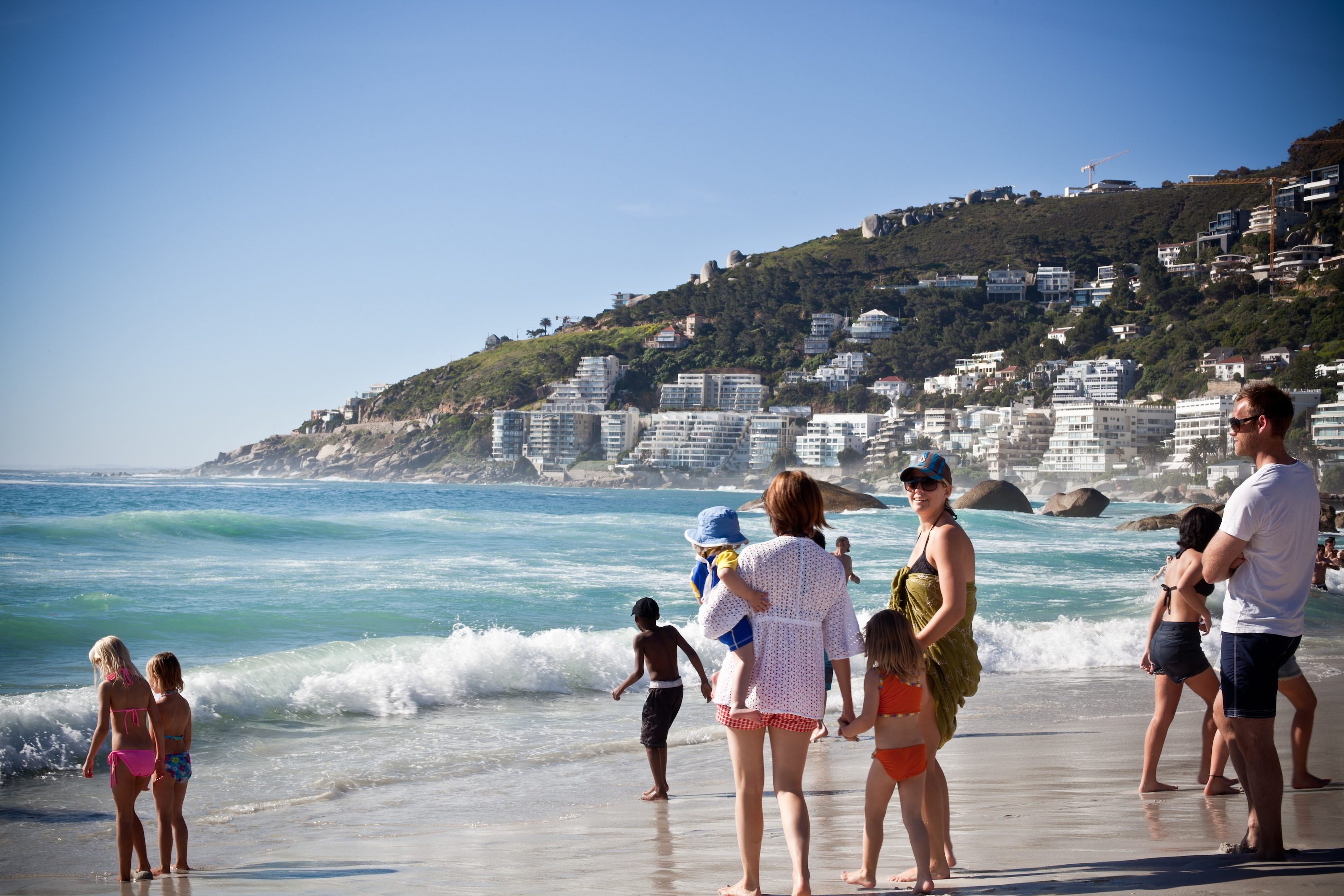 Another perfect beach day on Clifton 4th Beach This media shows a South African Protected Site with SAHRA file reference 9/2/018/0010.